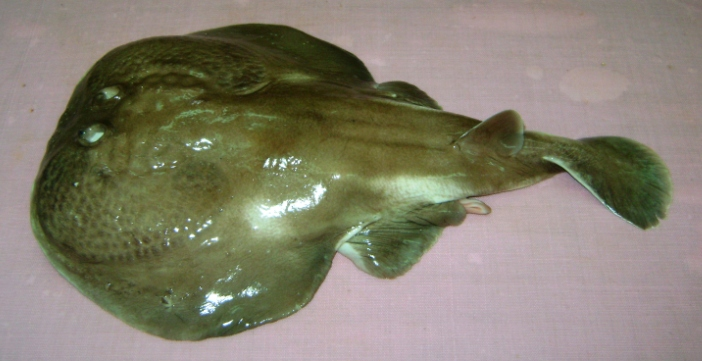 Numbray (Narke dipterygia) at Karachi